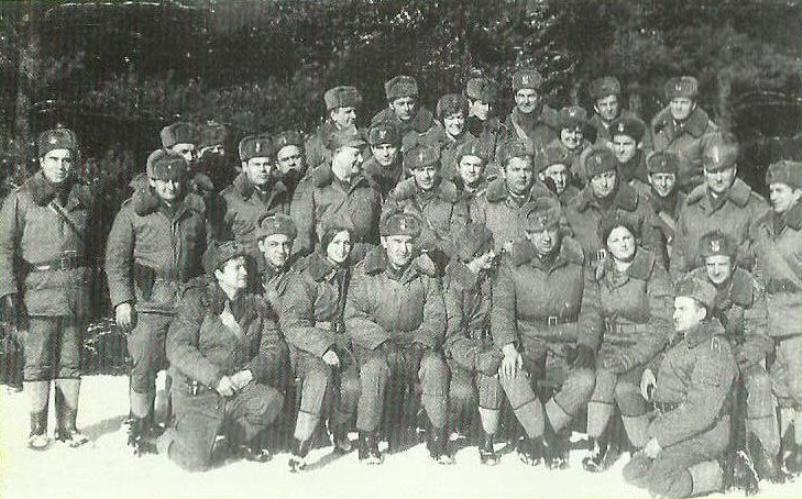 Drawsko, 1983r. Kadra 45 bmed na poligonie zimowym